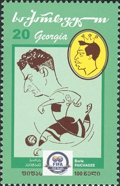 Stamps of Georgia, 2004